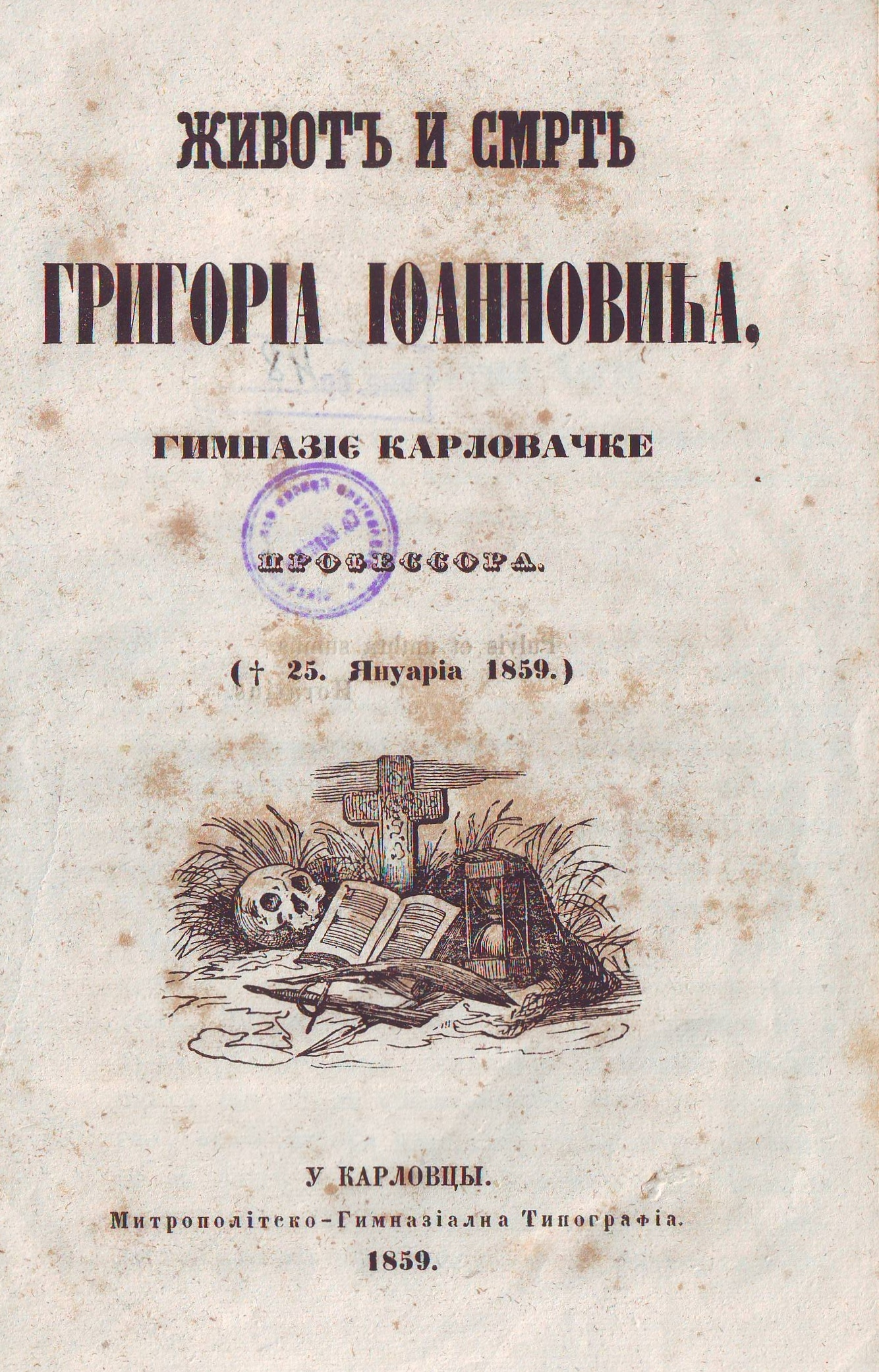 The cover of the booklet containing the obituary of Grigorije Jovanović (1816-1859), professor at Karlovci Gymnasium. Srpski (latinica): Naslovna strana knjižice koja sadrži nekrolog profesora Karlovačke gimnazije Grigorija Jovanovića (1816-1859).